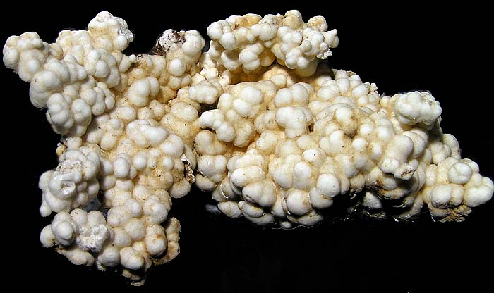 Picropharmacolite Locality: Salsigne mine, Salsigne, Mas-Cabardès, Carcassonne, Aude, Languedoc-Roussillon, France (Locality at ) An extremely rich example of clustered spherical aggregates of this rare arsenate species! Surprisingly, it is somewhat attractive. Old specimen. Ex. Martin Rosser collection. 5.5 x 4.0 x 1.8 cm